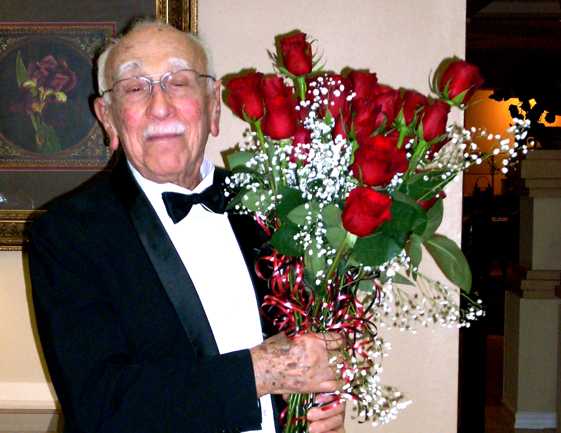 Photo of Dr Borish on his 95th Birthday with Rose Boquet